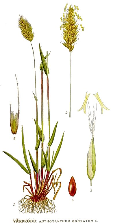 Anthoxanthum odoratum L. s. str. Original Description "Vårbrodd", Anthoxanthum odoratum L.